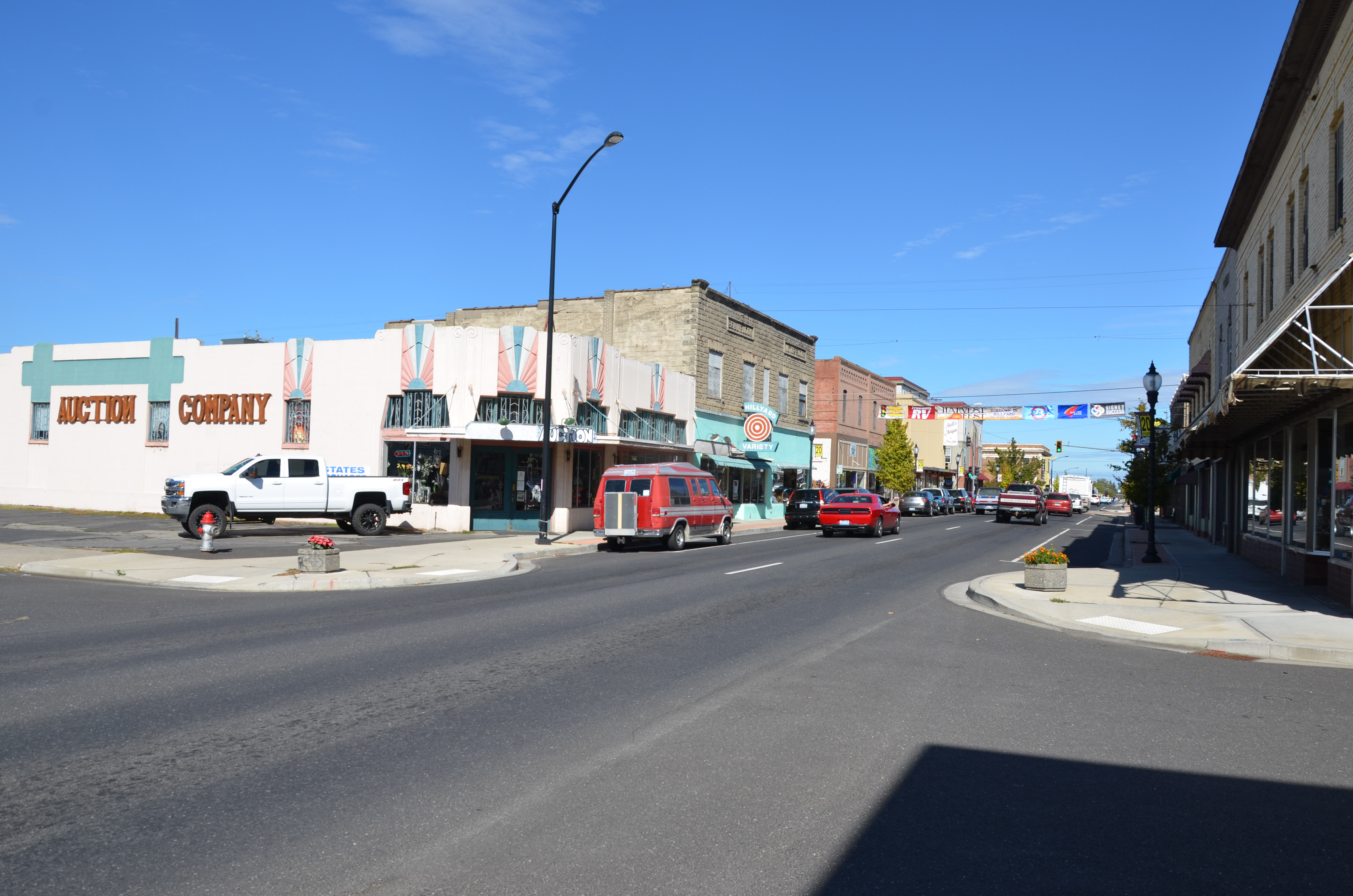 Looking North on Market and Olympic in Hillyard district - Spokane, WA